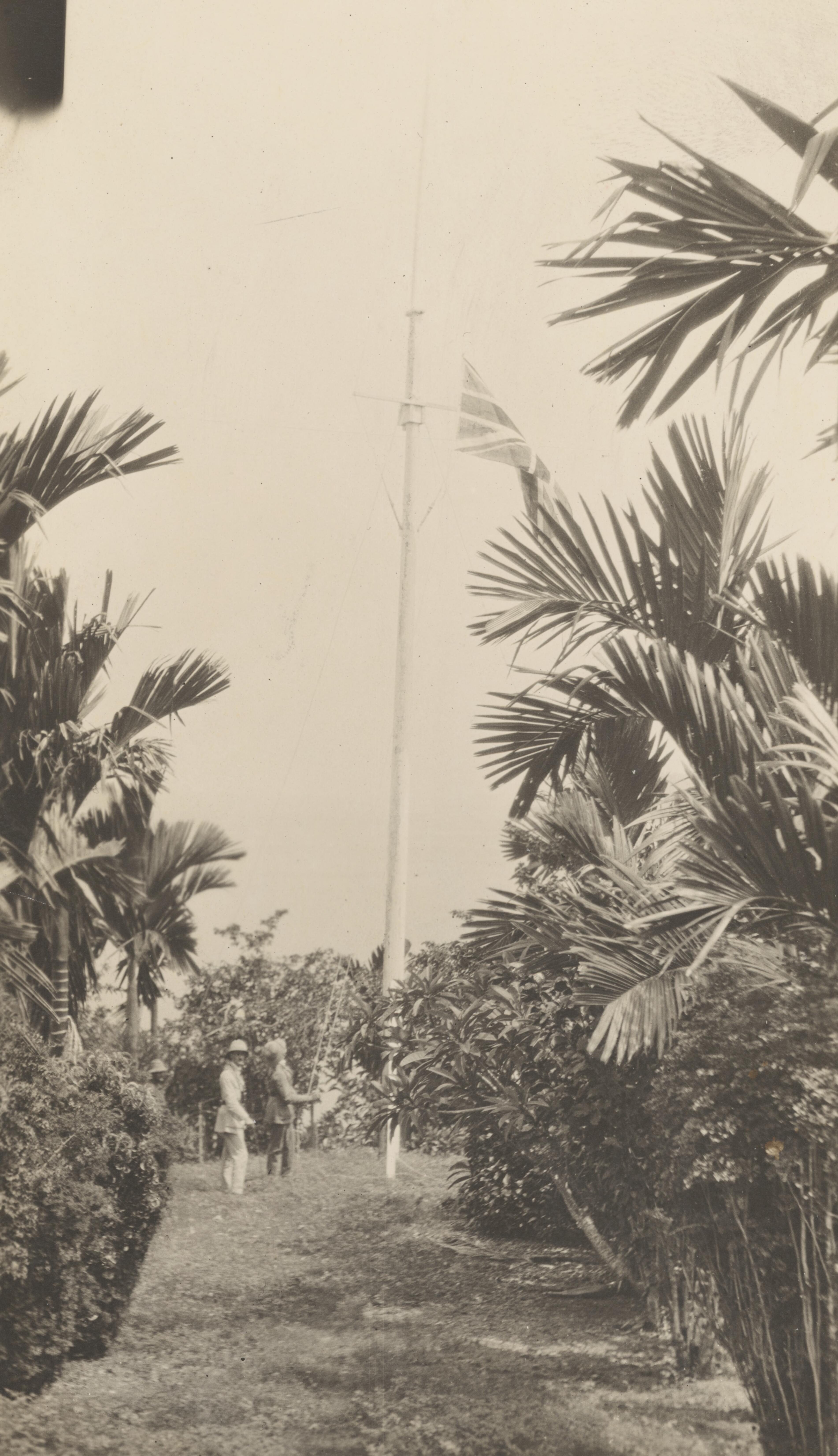 Members of the Australian Military and Naval Expeditionary Force hoisting the Union Jack at Kieta following their capture of the German station there